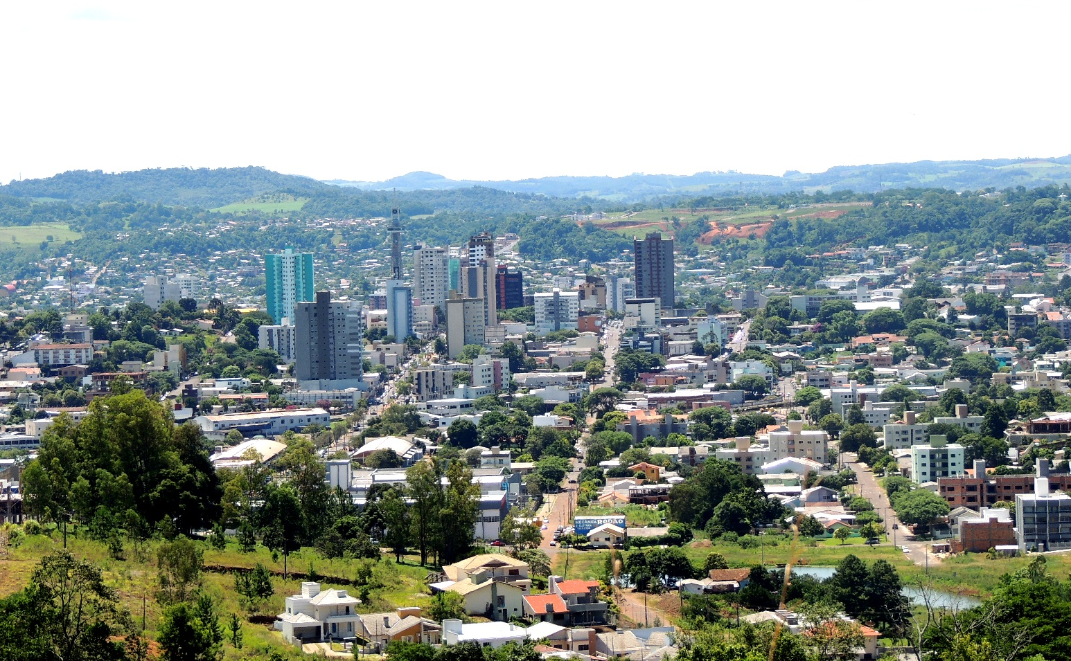 This photo was taken from the uppart of the main avenue.